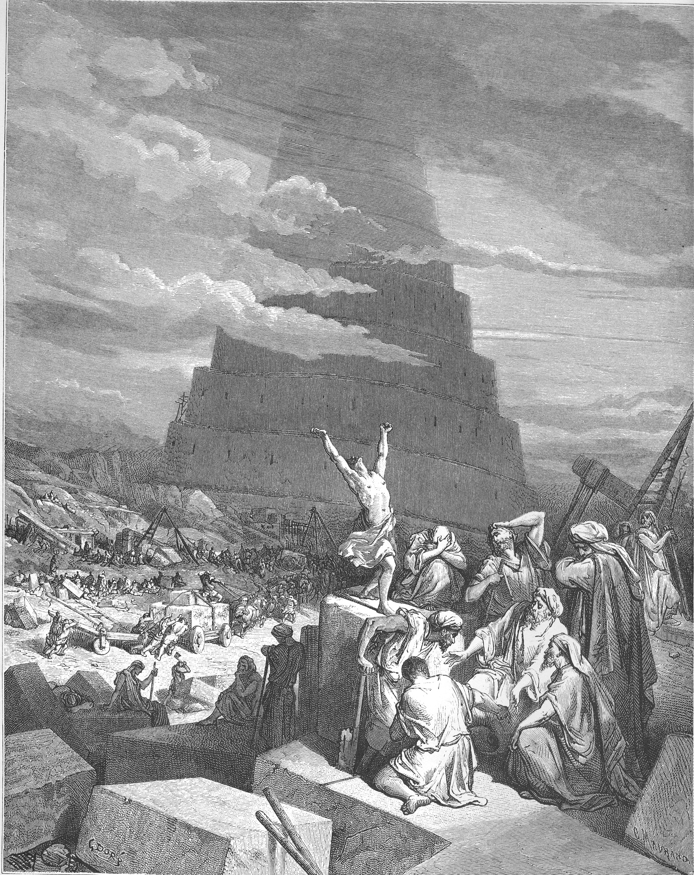 The Tower of Babel (Gen. 11:1-9)